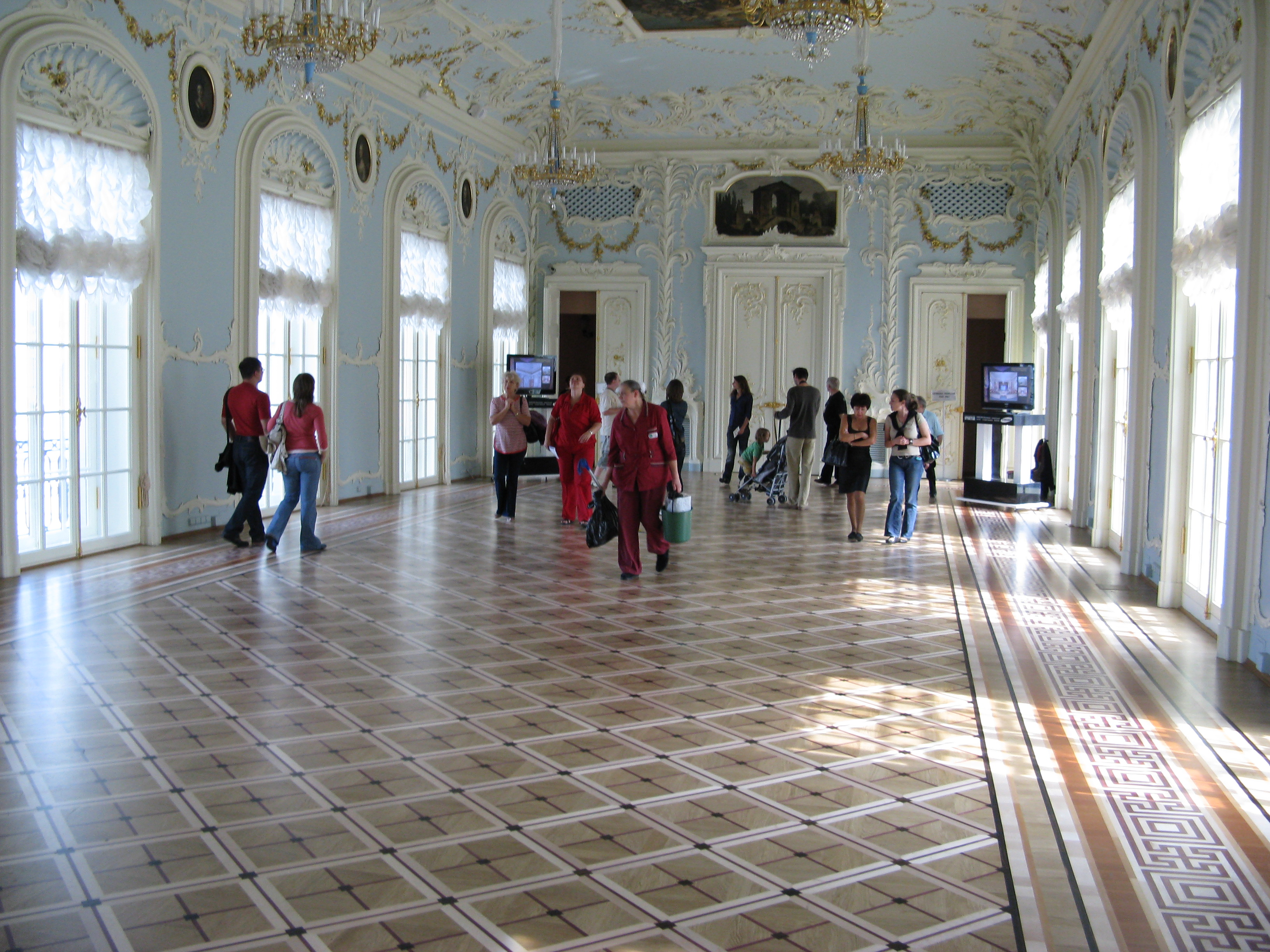 Entrance to Hermitage Theater, This room is on a bridge on the Winter Canal that connect the Moika To the Nieva